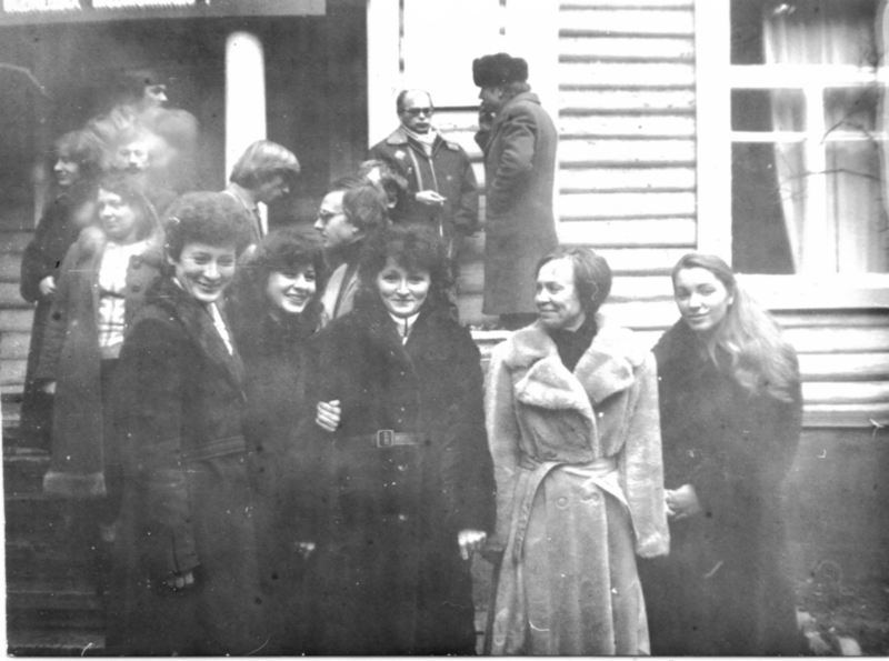 Creativity House of Belarusian Writers